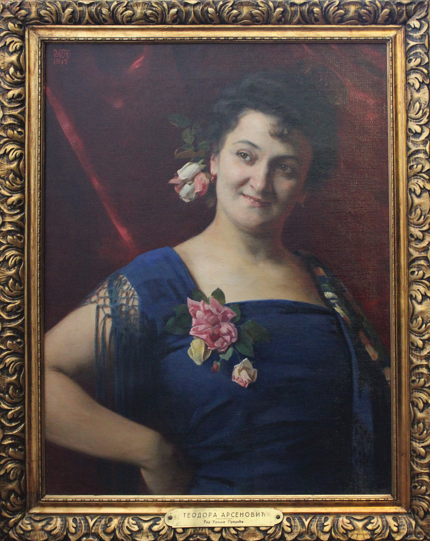 Portrait of Teodora Arsenović – Uroš Predić, oil on canvas, 1917 Srpski (latinica): Portret Teodore Arsenović - Uroš Predić, ulje na platnu, 1917. Српски (ћирилица): Портрет Теодоре Арсеновић – Урош Предић, уље на платну, 1917.